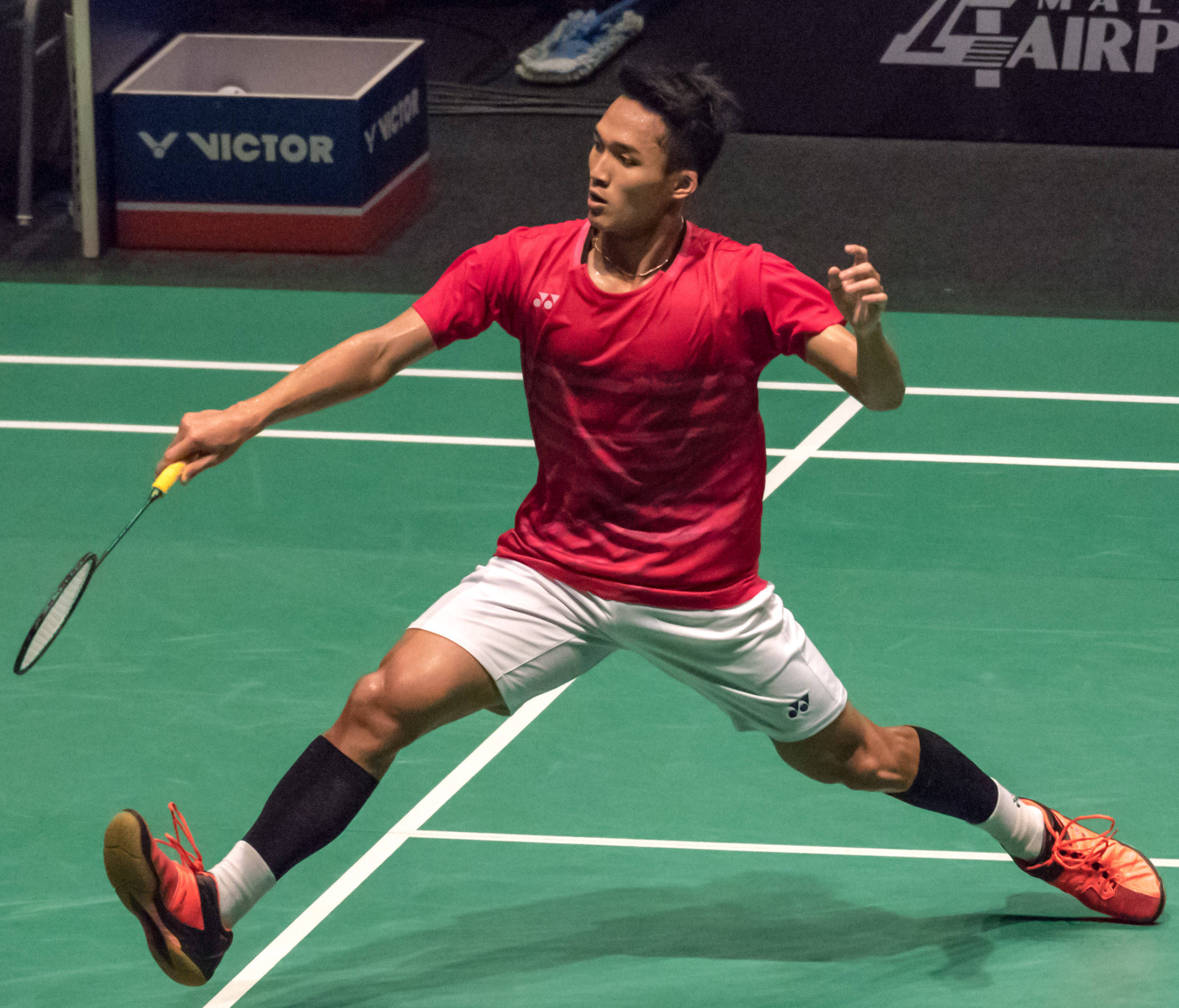 Sea Games Badmintion Final